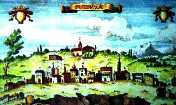 old view